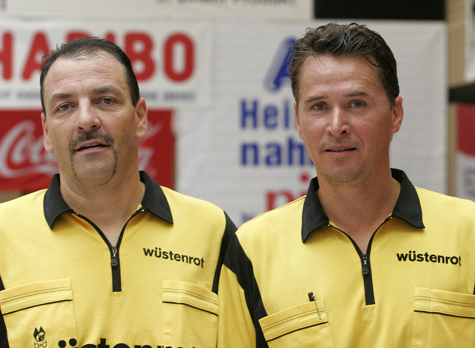 Germanys best handball referees: Frank Lemme (right) and Bernd Ullrich (left), during the Schlecker Cup 2007 in Ehingen (Germany)